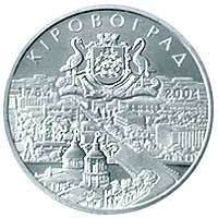 Coin of Ukraine